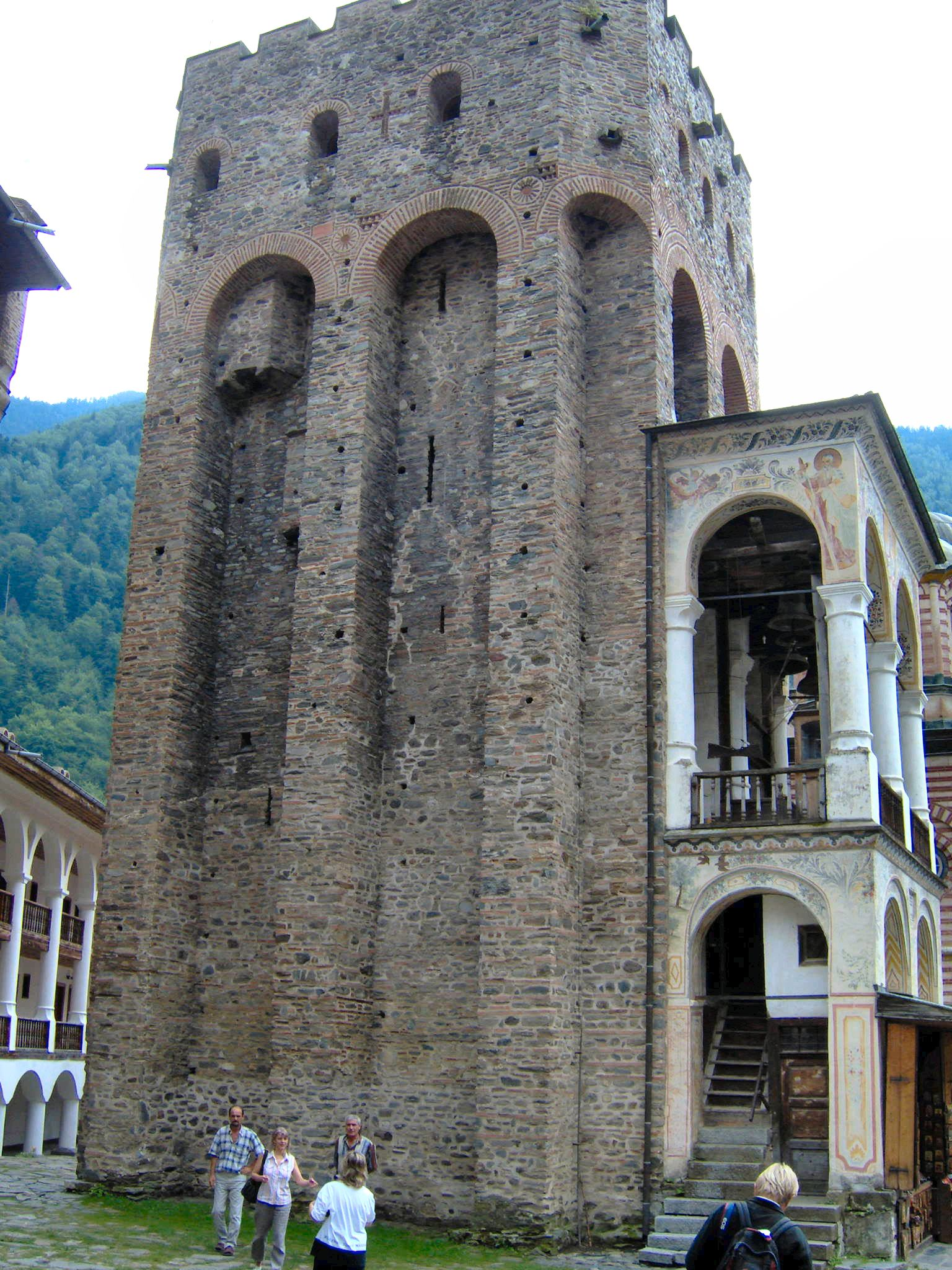 22 meters high "Tower of Hrelya" in the Rila Monastery. Made by Serbian nobleman protesevest Hrelja, under tsar Stefan Dušan of Serbia, around 1342 (or 1334–1335).